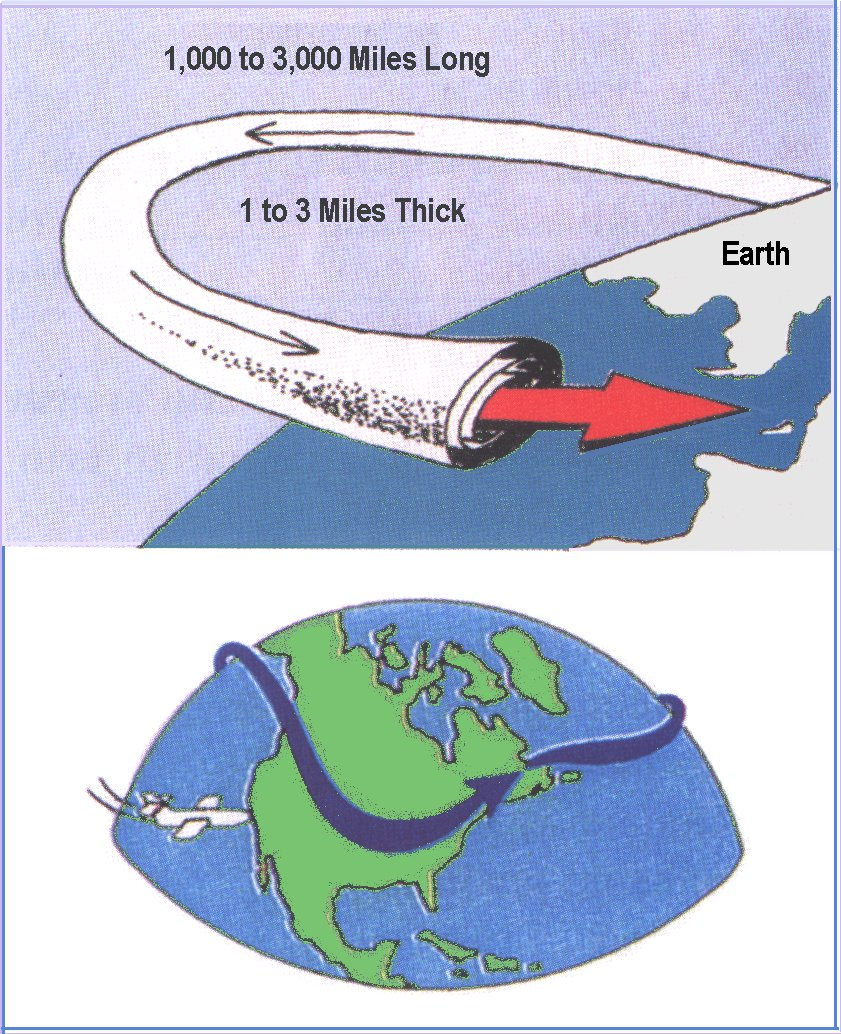 The jet stream is the comparatively narrow current of air that moves around the Northern and Southern Hemispheres of the Earth in wavelike patterns. It can be compared to a "river" of wind moving at high speed. The jet stream varies from about 100 to 400 miles (161 to 644 kilometers) wide and 1 to 3 miles (1.6 to 4.8 kilometers) thick. Its strongest winds are generally encountered at about 30,000 feet (9,144 meters) in altitude—in the troposphere. Jet-stream winds usually have a speed of 150 to 300 miles per hour (241 to 482 kilometers per hour), but speeds up to 450 miles per hour (724 kilometers per hour) have been recorded. Its general motion is from west to east. However, there also is a tropical easterly jet stream, which occurs during summer. This jet stream originates in the upper troposphere near Burma and extends to the west of Africa, some 6,000 miles (10,000 kilometers) to the west. The most extreme differences in temperatures occur where the stream is the narrowest.